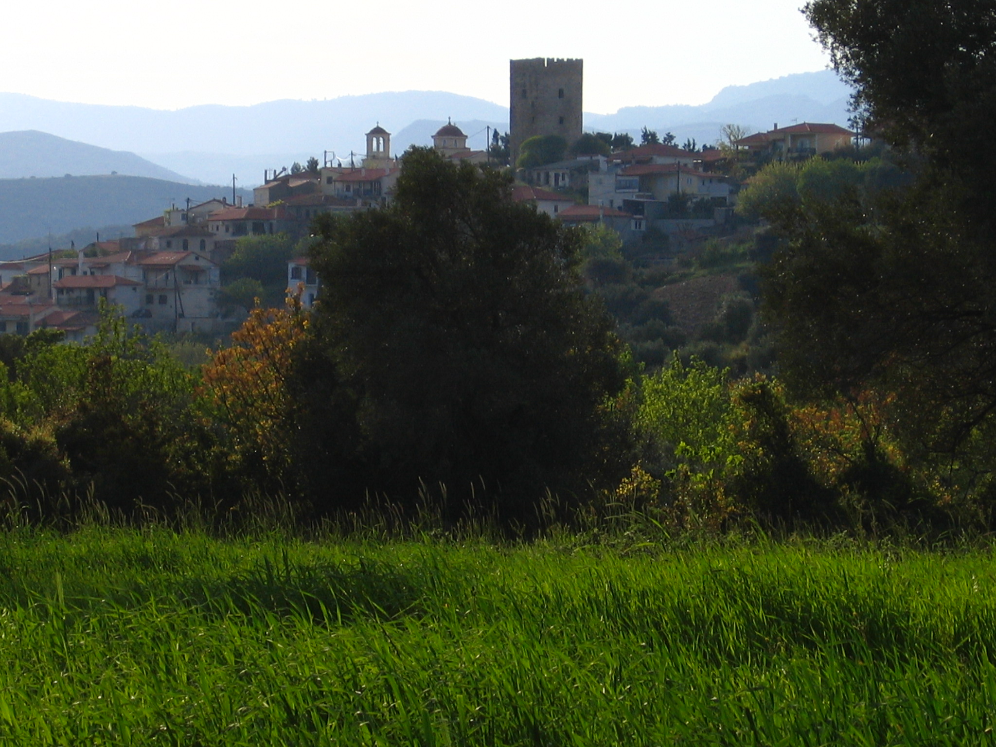 View of Avlonari, Greece